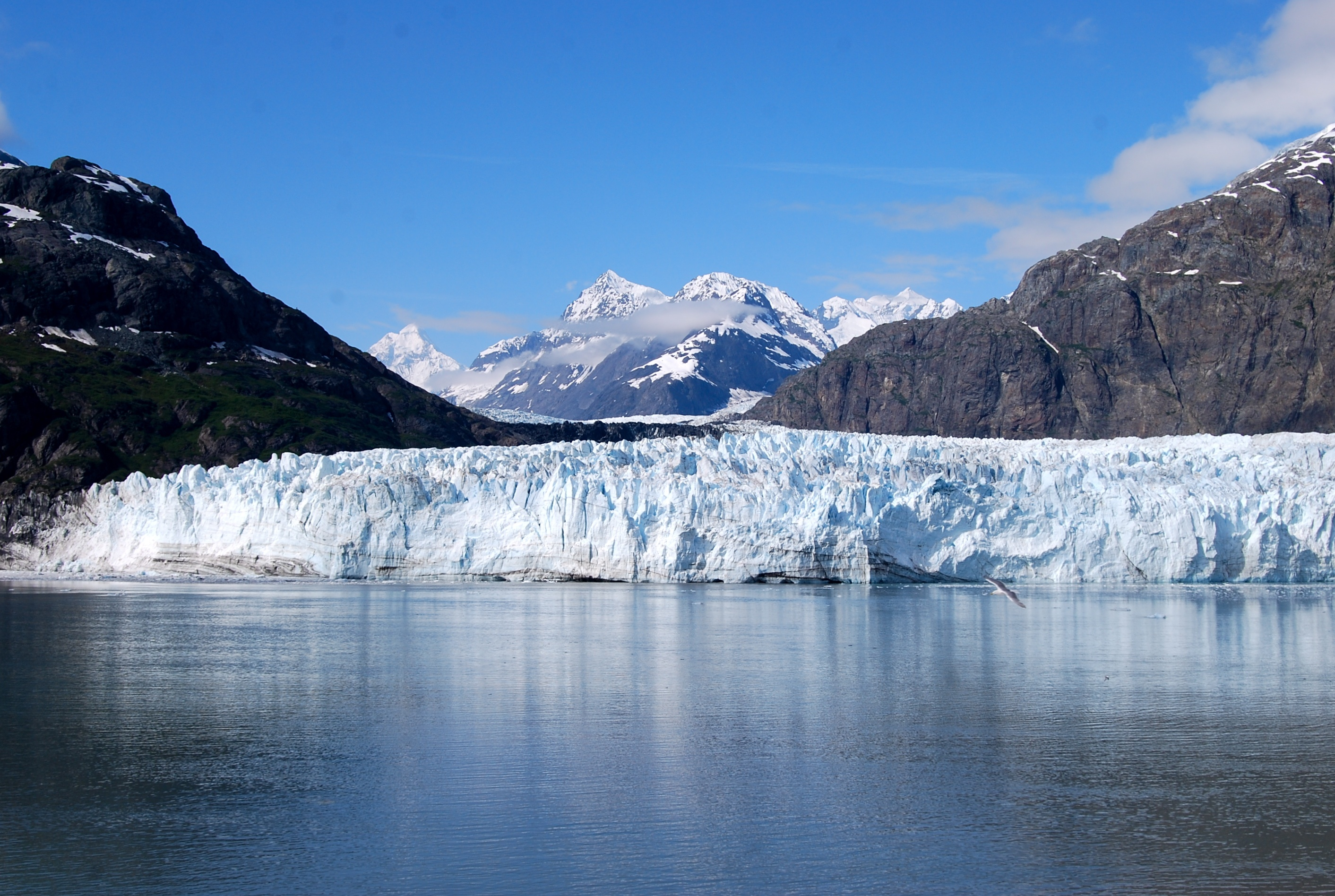 Margerie Glacier & Mt Fairweather